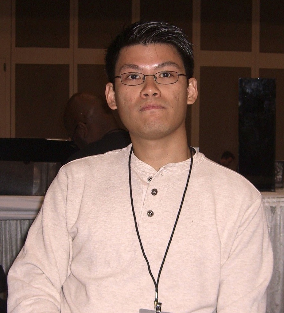 Comic book creator Steve Uy, at the New York Comic Convention in Manhattan, October 10, 2010. Photo by Luigi Novi. This photo may be used, modified and published for any purpose, only if a easily visible credit to the photographer is placed near the photo in each instance in which it is used. (See licensing information below.) Publication of this photo without this proper attribution constitute copyright infringement. For more information on my photos, you can contact me here.